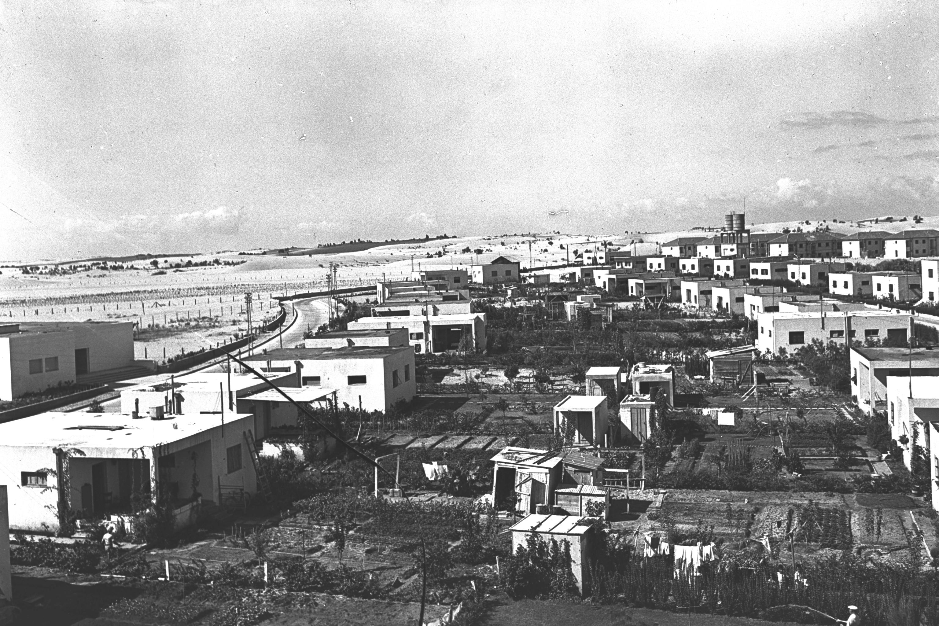 THE KIRYAT AVODA SUBURB OF HOLON. הפרוור קרית עבודה בחולון.